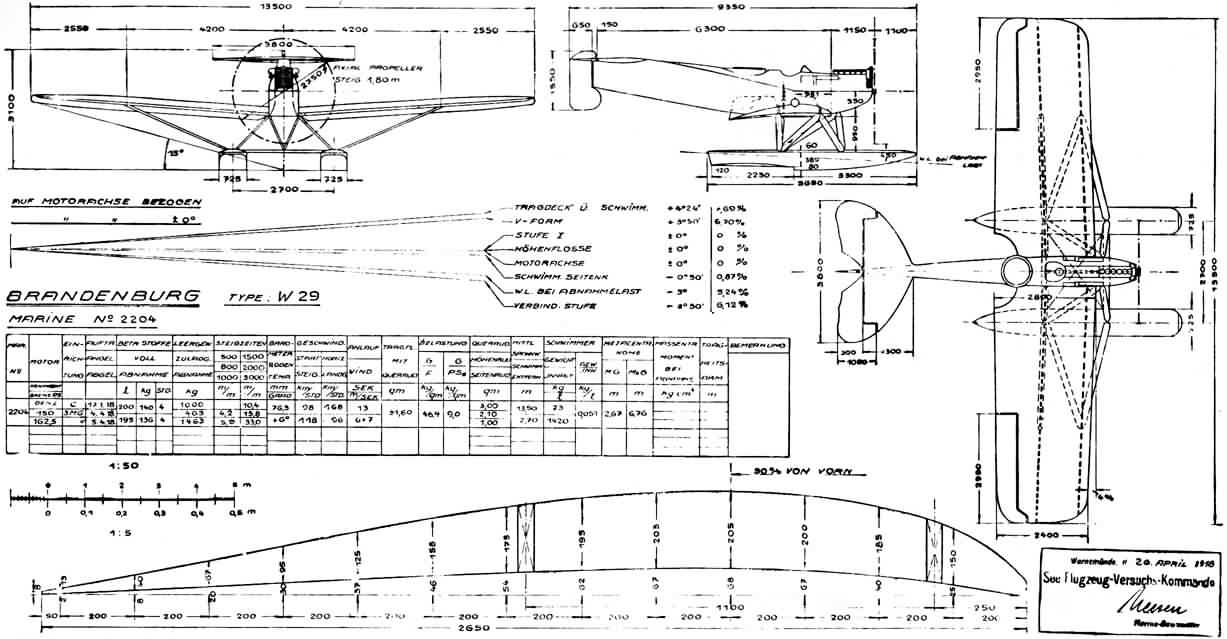 Hansa-Brandenburg W.29 German World War 1 reconnaissance and fighter seaplane